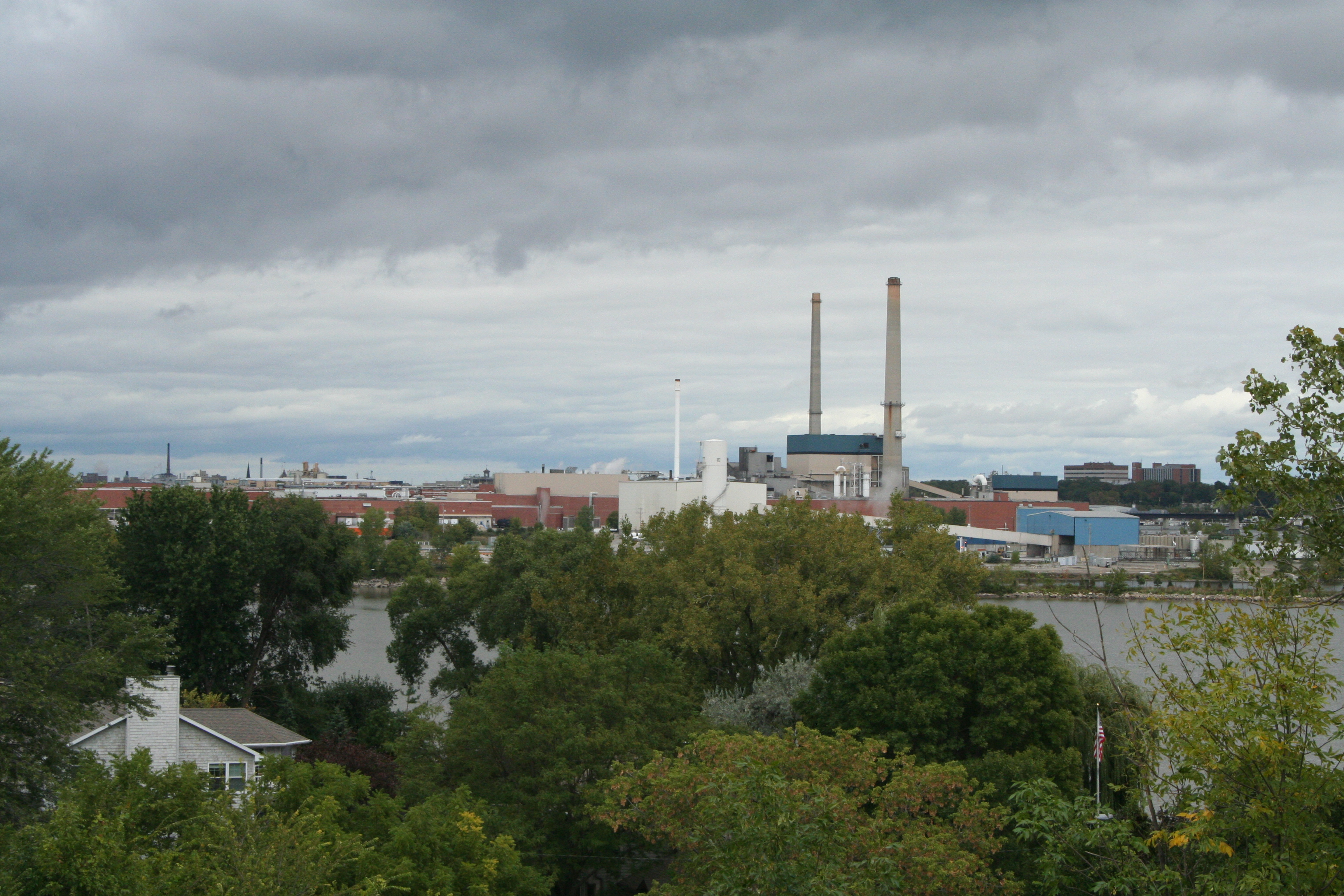 Georgia-Pacific Broadway facility, 1919 South Broadway, Green Bay, WI 54304 Formerly Fort Howard